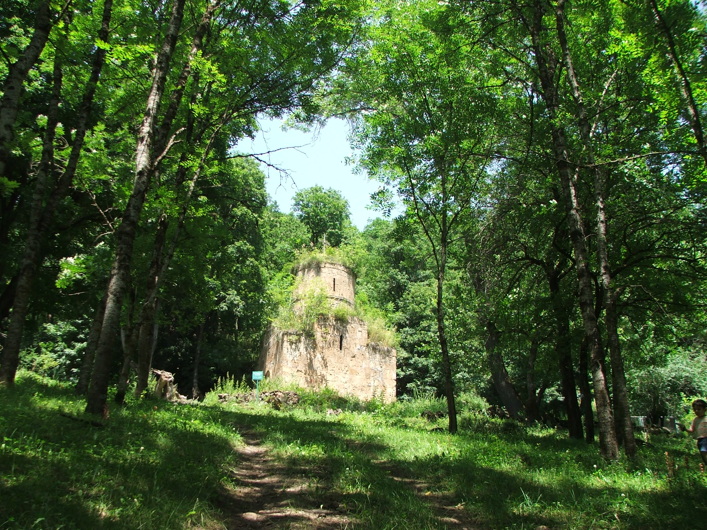 Aghavnavank